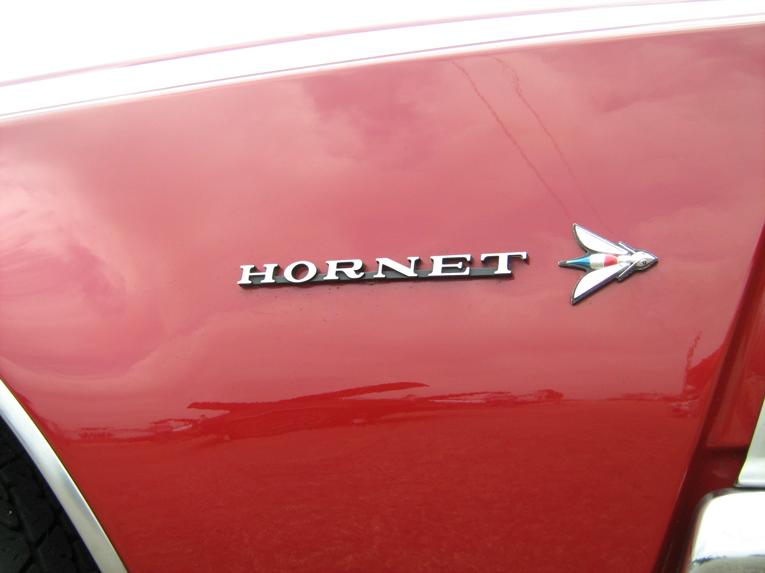 Detail of the Hornet badge on the front fender of the 1971 AMC SC 360 Hornet, a compact "muscle car" that was made by American Motors Corporation (AMC). This two-door sedan was an economical factory-ready model for on-road performance and drag racing. The standard engine was AMC's 360 cu in (5.9 L) V8. Photograph taken at Potomac Ramblers Club's 2011 all AMC Drag Race Day held at the Capitol Raceway, an NHRA sanctioned, 1/4 mile, asphalt and concrete, drag strip located in Crofton, Maryland.